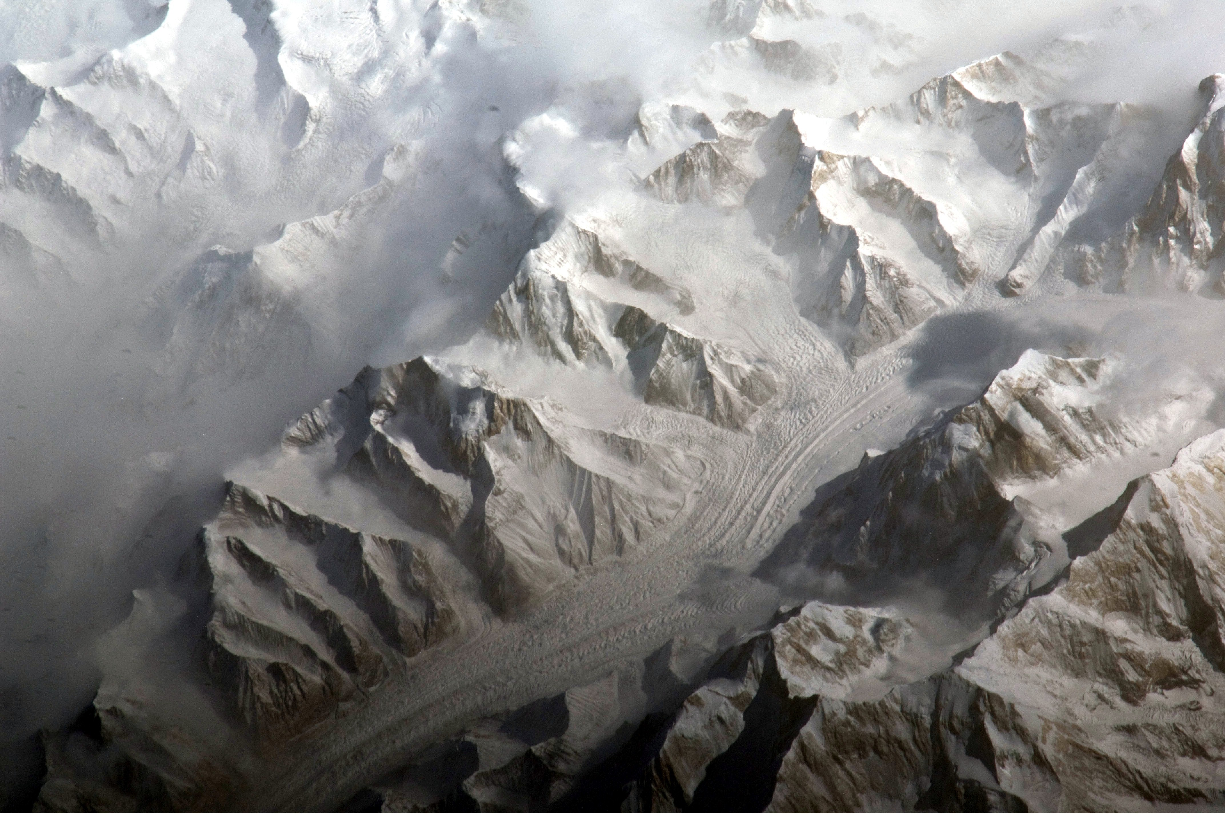 This astronaut photograph provides a view of the central Tien Shan, about 64 kilometres east of where the borders of China, Kyrgyzstan, and Kazakhstan meet. While the image looks like it might have been taken from an airplane, it was taken from the International Space Station (ISS) at an altitude of 341 kilometres. The altitude plus the horizontal distance from the site—ISS was approximately 304 kilometres to the south-west—produces an oblique view. This angle, together with shadowing of valleys, accentuates the mountainous topography. Two types of glaciers are visible in the image; cirque glaciers occupy amphitheater-like depressions on the upper slopes of the mountains, and feed ice down-slope to aggregate into large valley glaciers such as the one at image centre. Low clouds obscure an adjacent valley and glaciers to the north (upper left). Two high peaks of the central Tien Shan are identifiable in the image. Xuelian Feng has a summit of 6, 527 meters above sea level. To the east, the aptly-named Peak 6231 has a summit 6,231 meters above sea level.